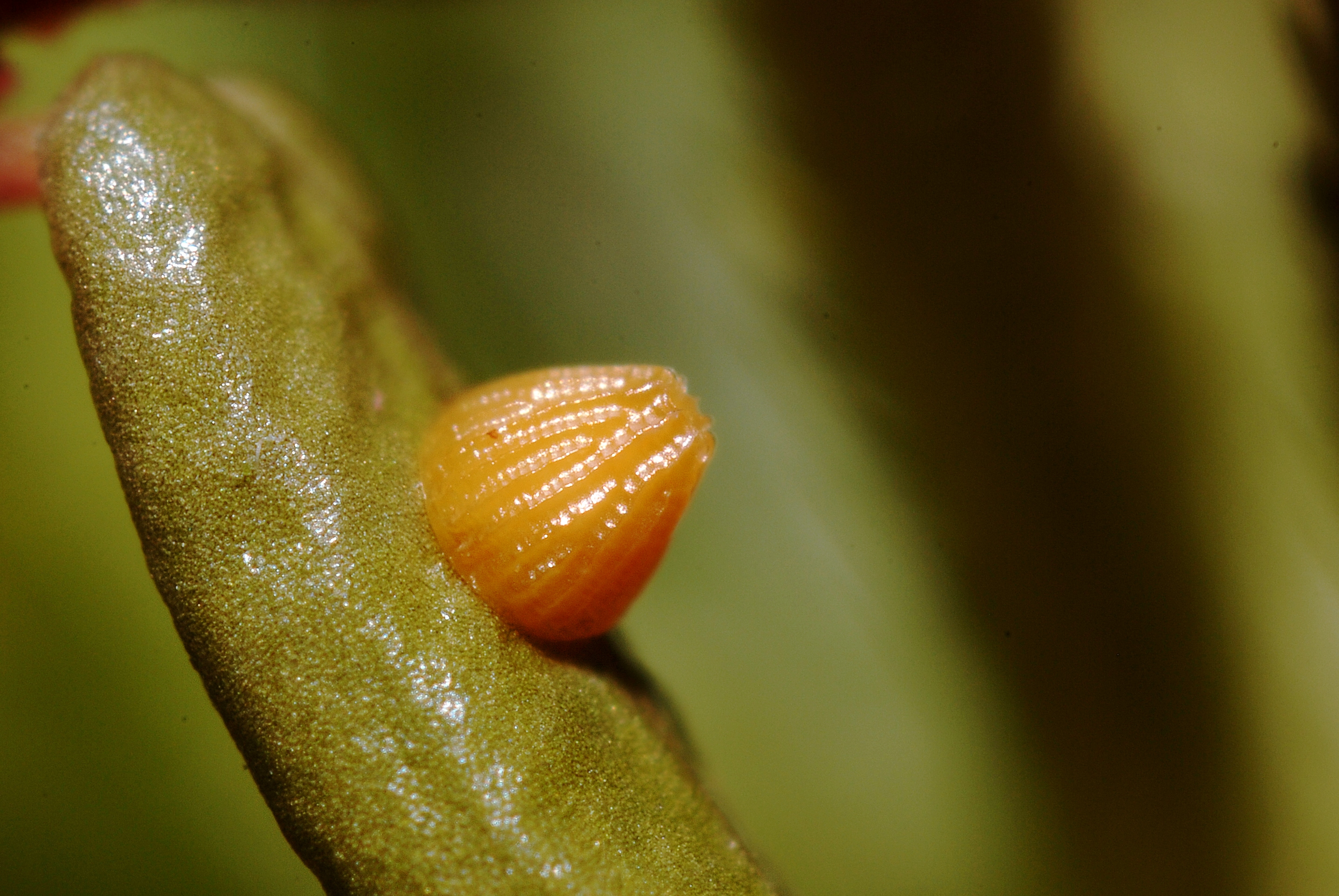 Egg of the butterfly Boloria aquilonaris on a leaf of its host plant Vaccinium oxycoccos. Scale : egg eight and width = ~0.7 mm Technical settings : single exposure with 28 mm Nikkor-H reversed on 68 mm extention tubes (+ crop)